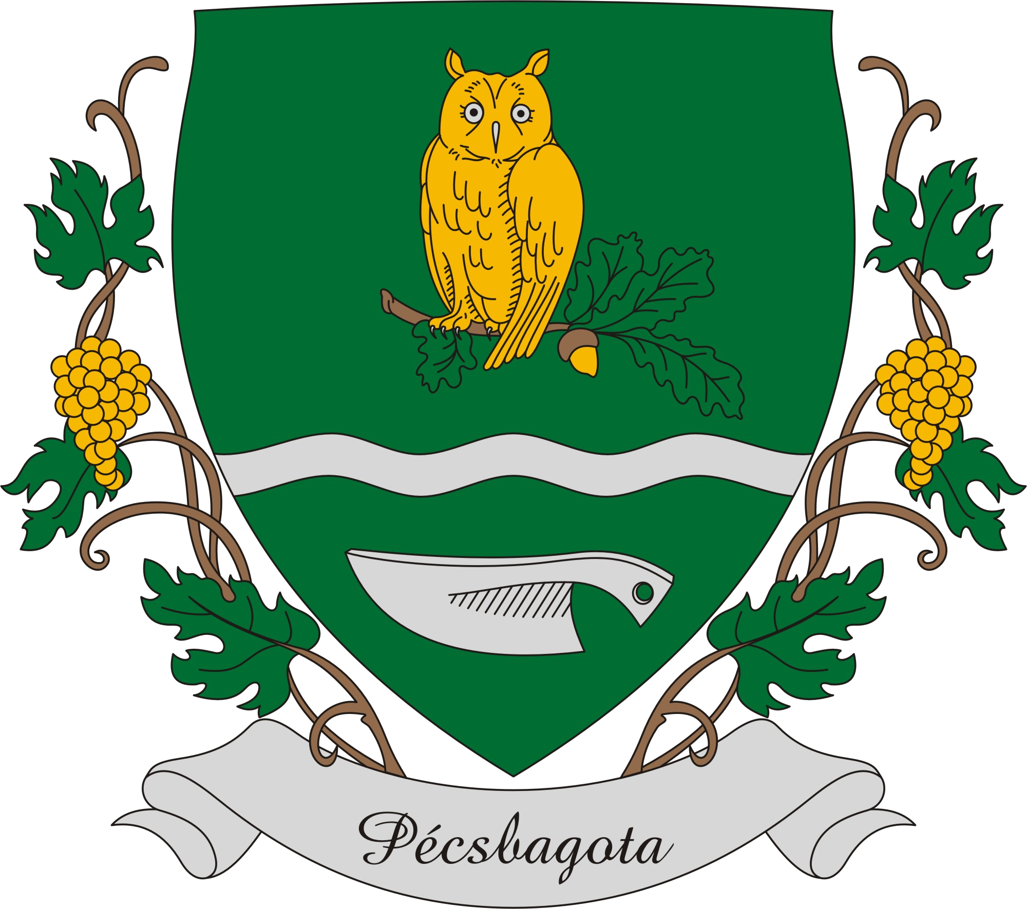 Coat of arms of Pécsbagota, Hungary